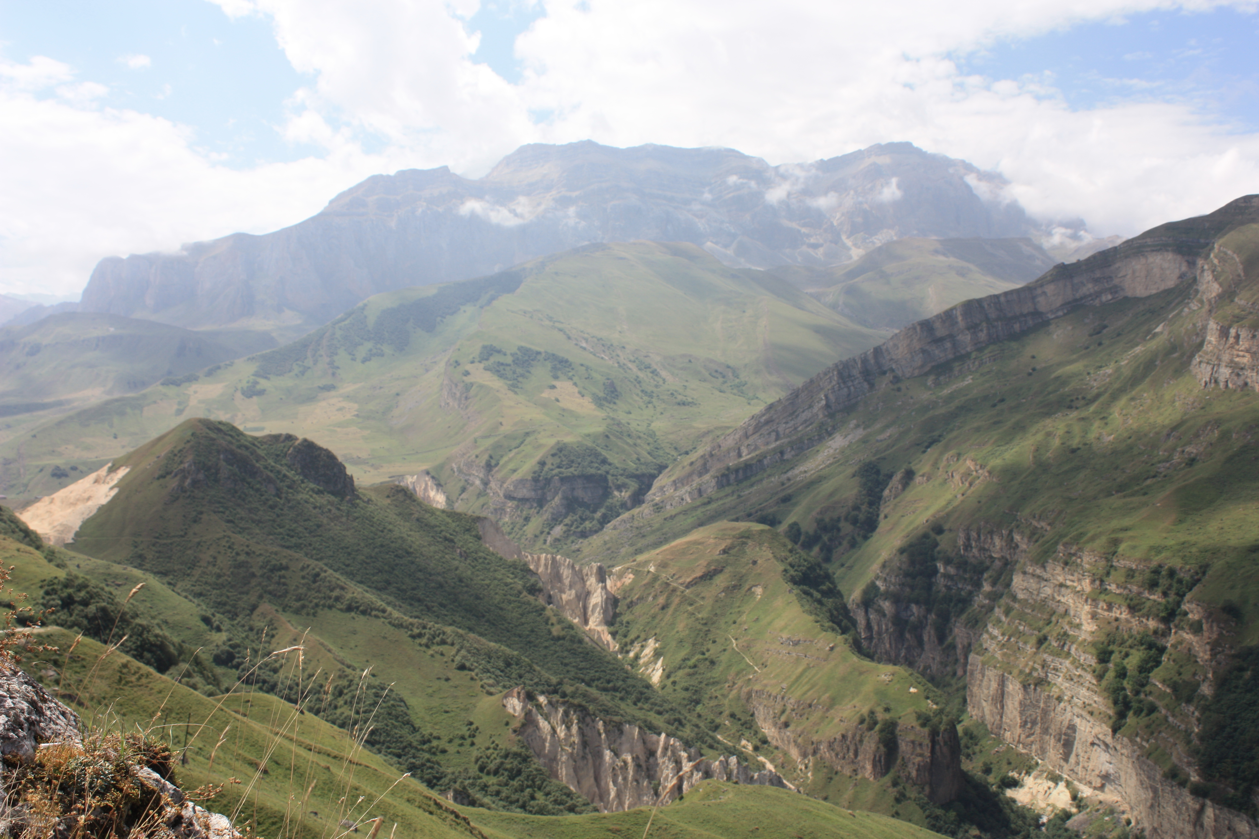 Qusar State Nature Sanctuary